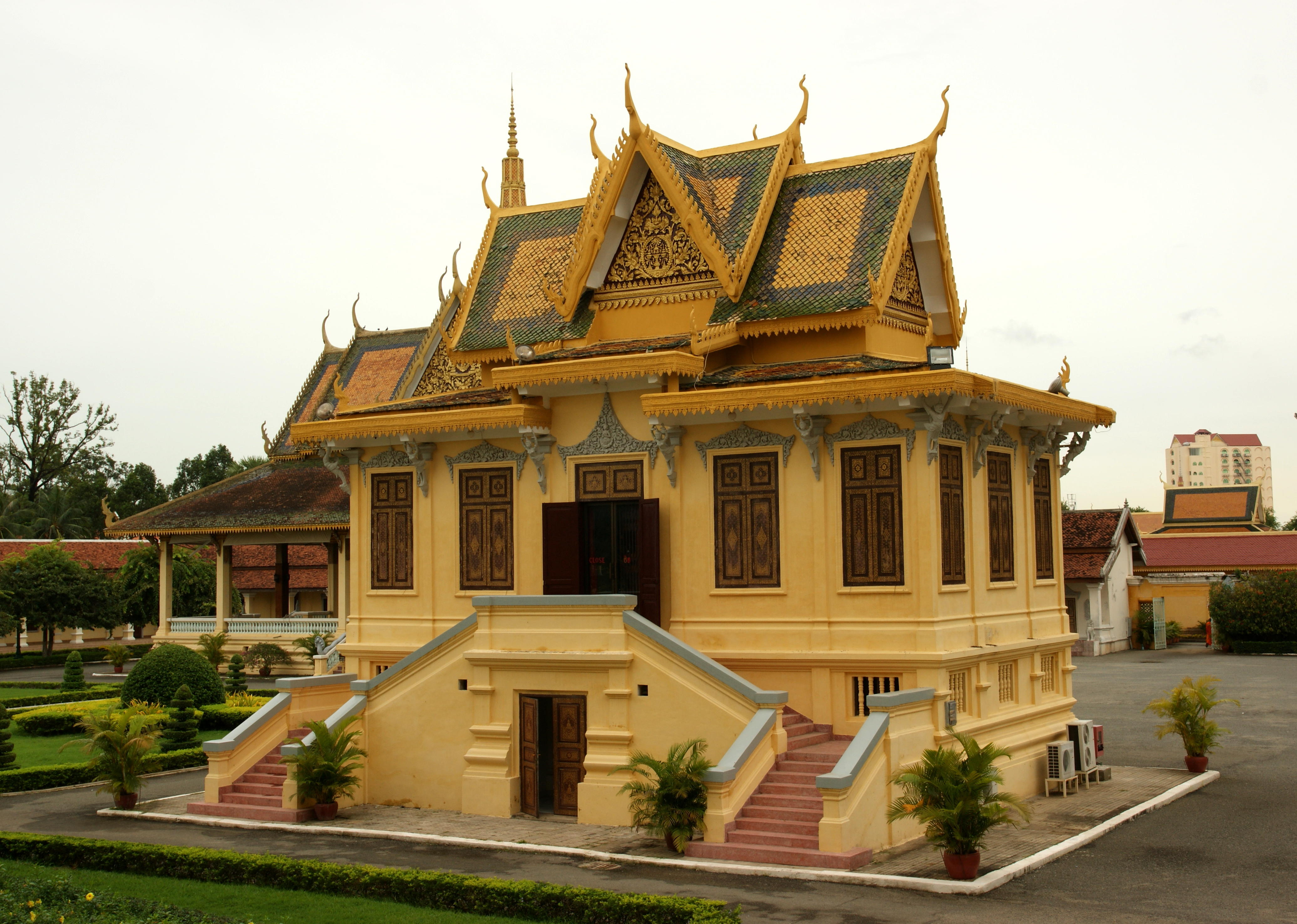 This building is the 'Hor Samran Phirun' or the Royal rest house of the Cambodian royal palace at Phnom Penh. It is also the place where the King waits to mount an elephant for royal processions. The building was originally constructed in 1917 to store musical instruments and procession implements; it currently houses displays of gifts from foreign heads of state.